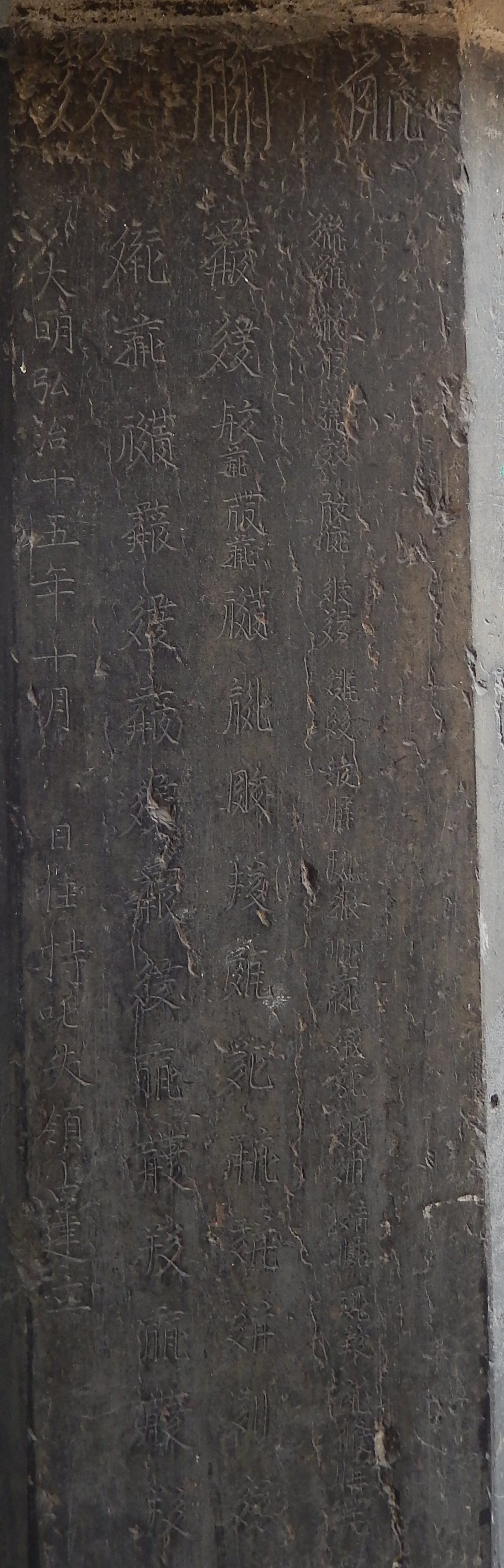 Detail of the Tangut inscription on a dharani pillar erected in the 10th month of the 15th year of the Hongzhi era (1502), now standing in the Ancient Lotus Pool (古蓮花池) garden in Baoding.